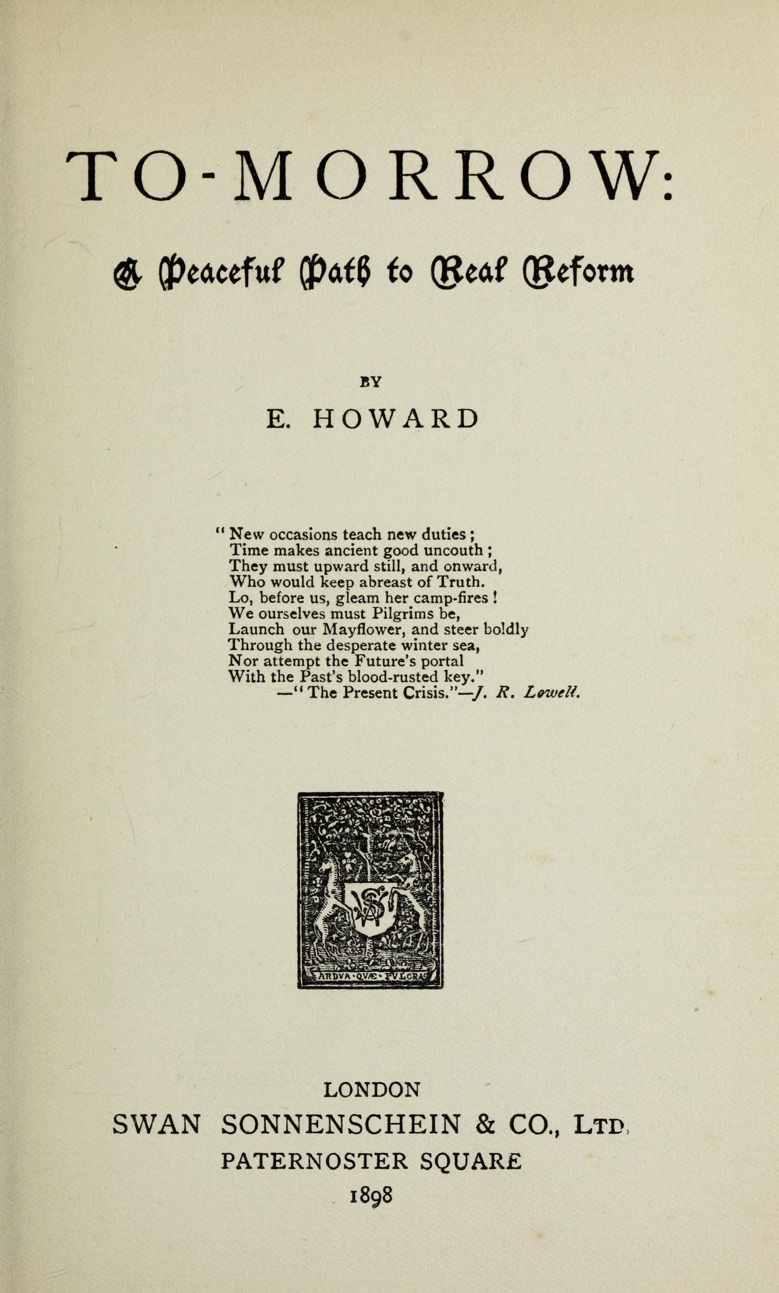 Title page of Howard, Ebenezer (1898) To-morrow: A Peaceful Path to Reform, London: Swan Sonnenschein & Co. OCLC: 889830718. .